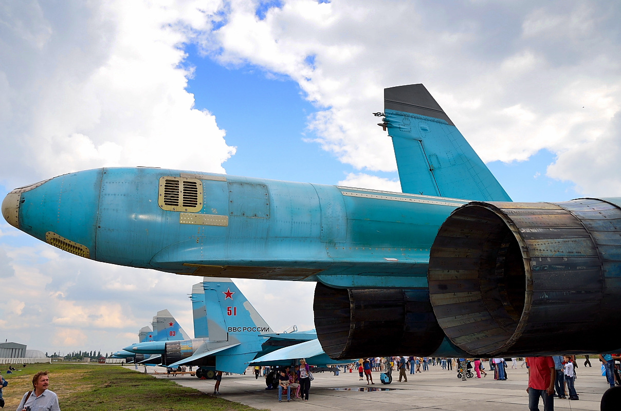 "Fullback" tail.